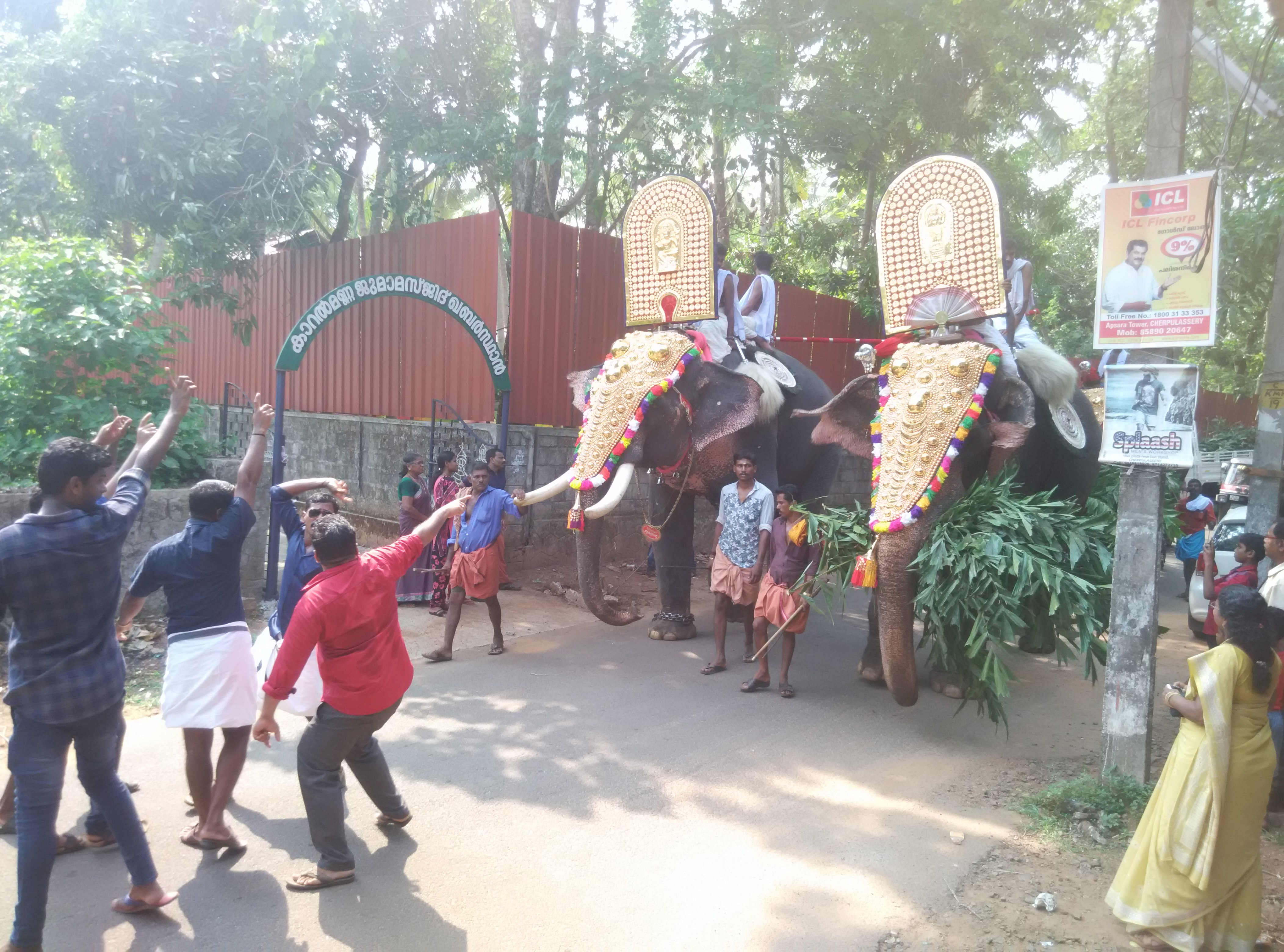 elephents from a festival from Kerala.